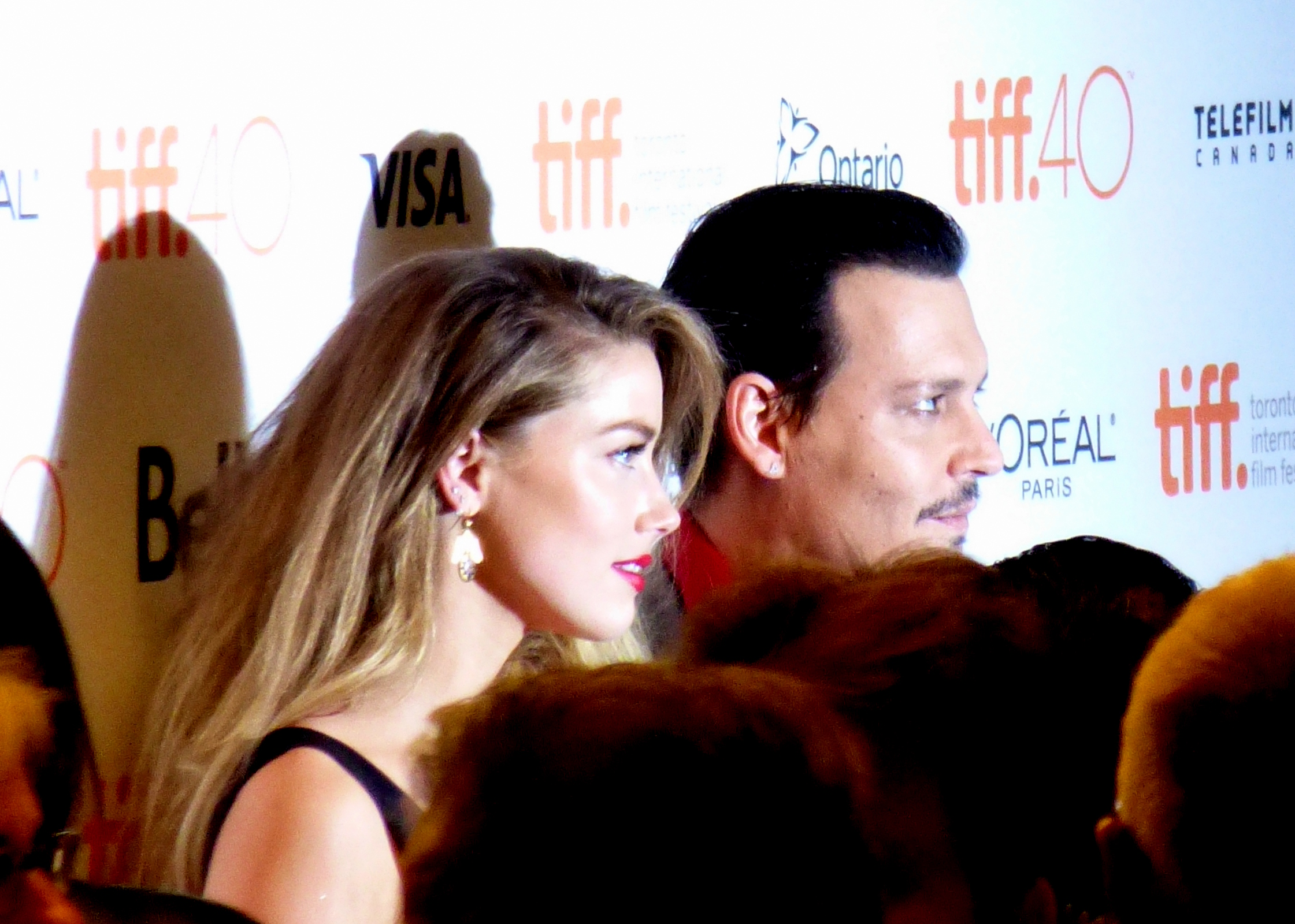 Amber Heard and Johnny Depp at the premiere of Black Mass, 2015 Toronto Film Festival